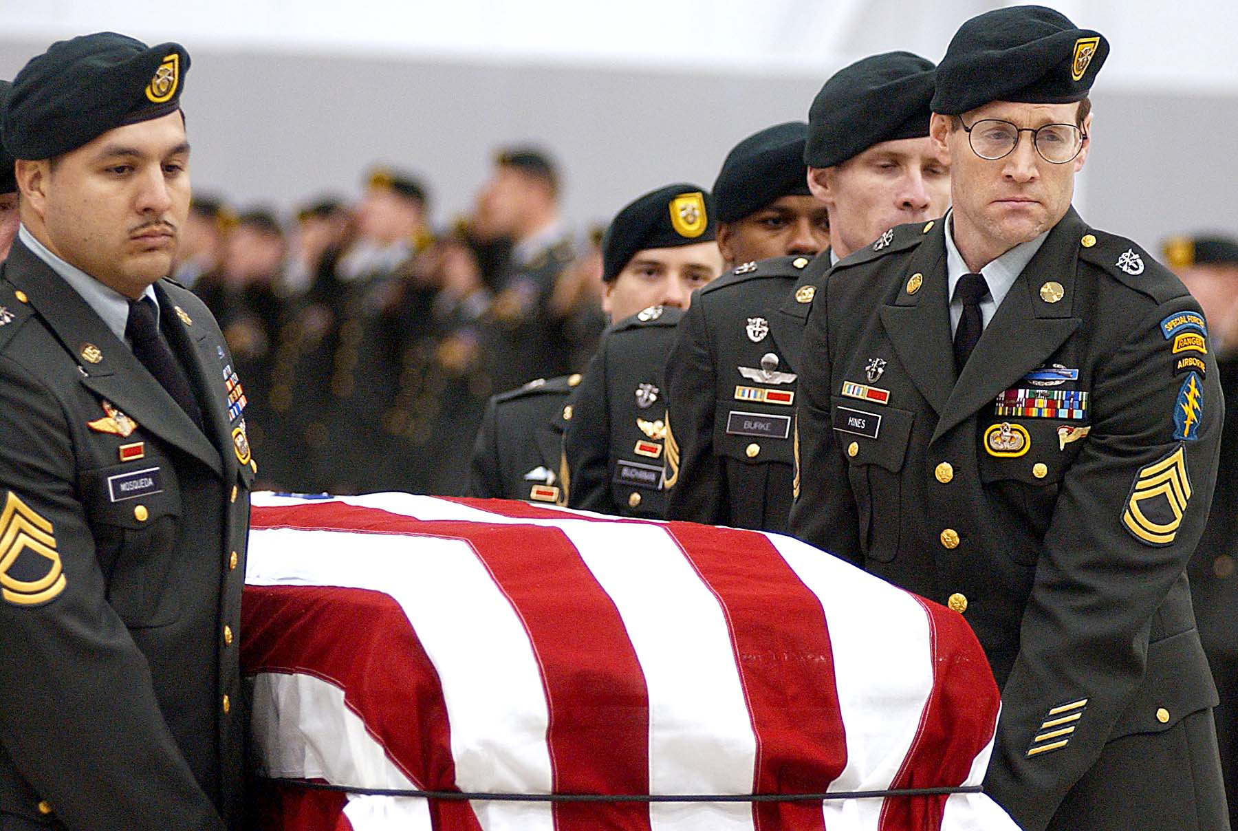 An honor guard from the 1st Special Forces Group transports the flag-draped coffin of Sgt. 1st Class Nathan R. Chapman just before midnight Jan. 8 at Seattle-Tacoma International Airport. More than 60 Green Berets joined the Chapman family at the airport to pay their respects to the first U.S. soldier killed by hostile fire in Afghanistan.